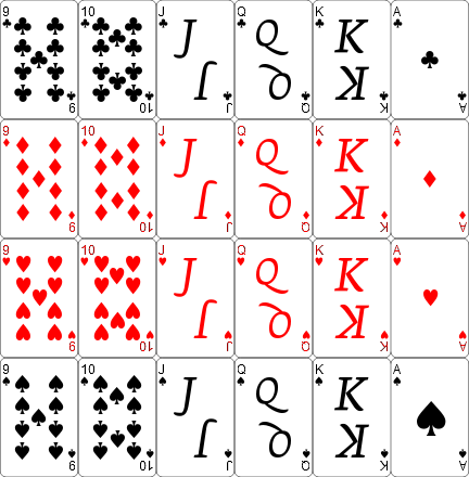 Set of playing cards used in Ruska Trupa.